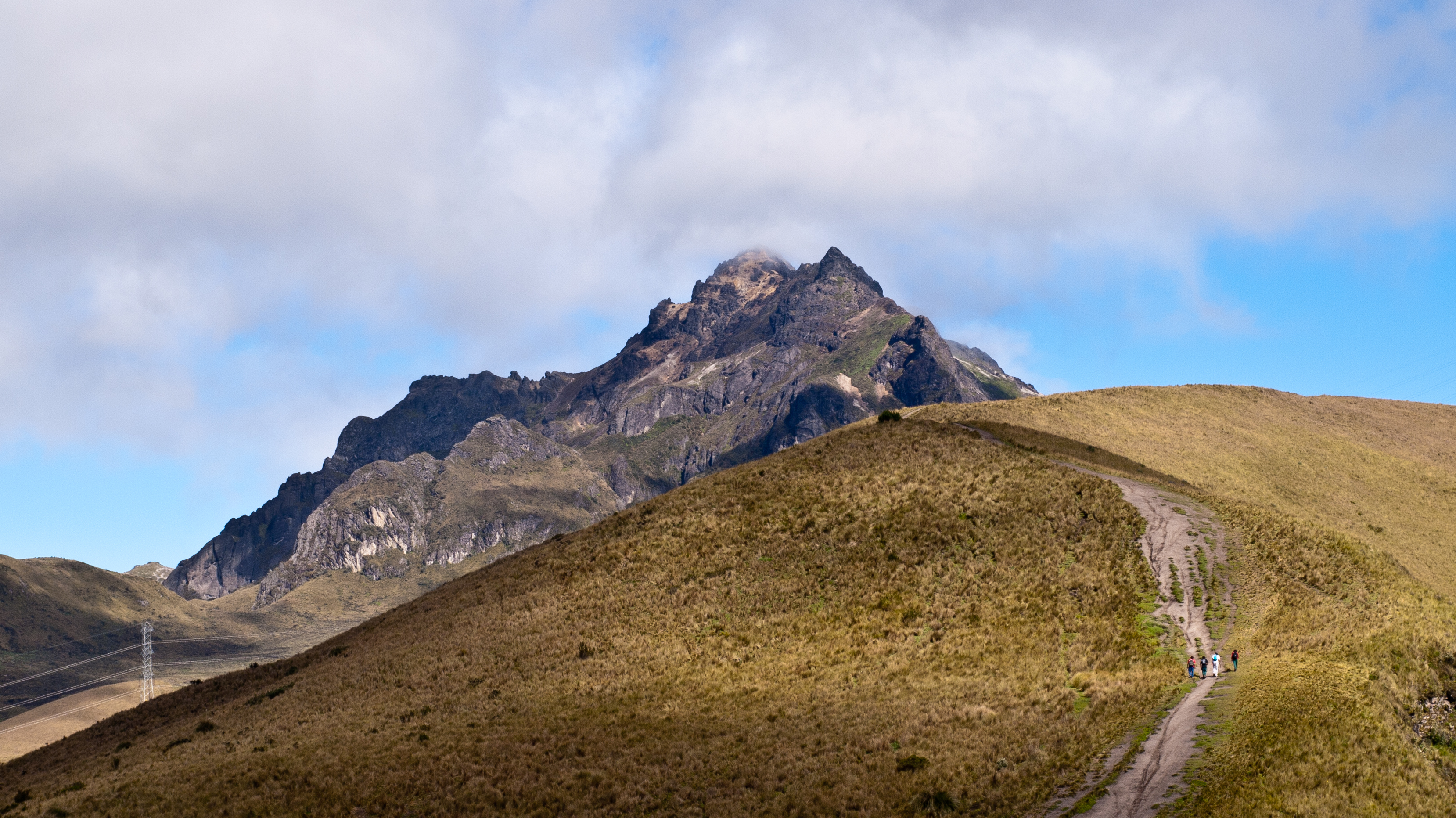 Photograph of Rucu Pichincha approach taken from the southeast near Quito, Ecuador in 2009.